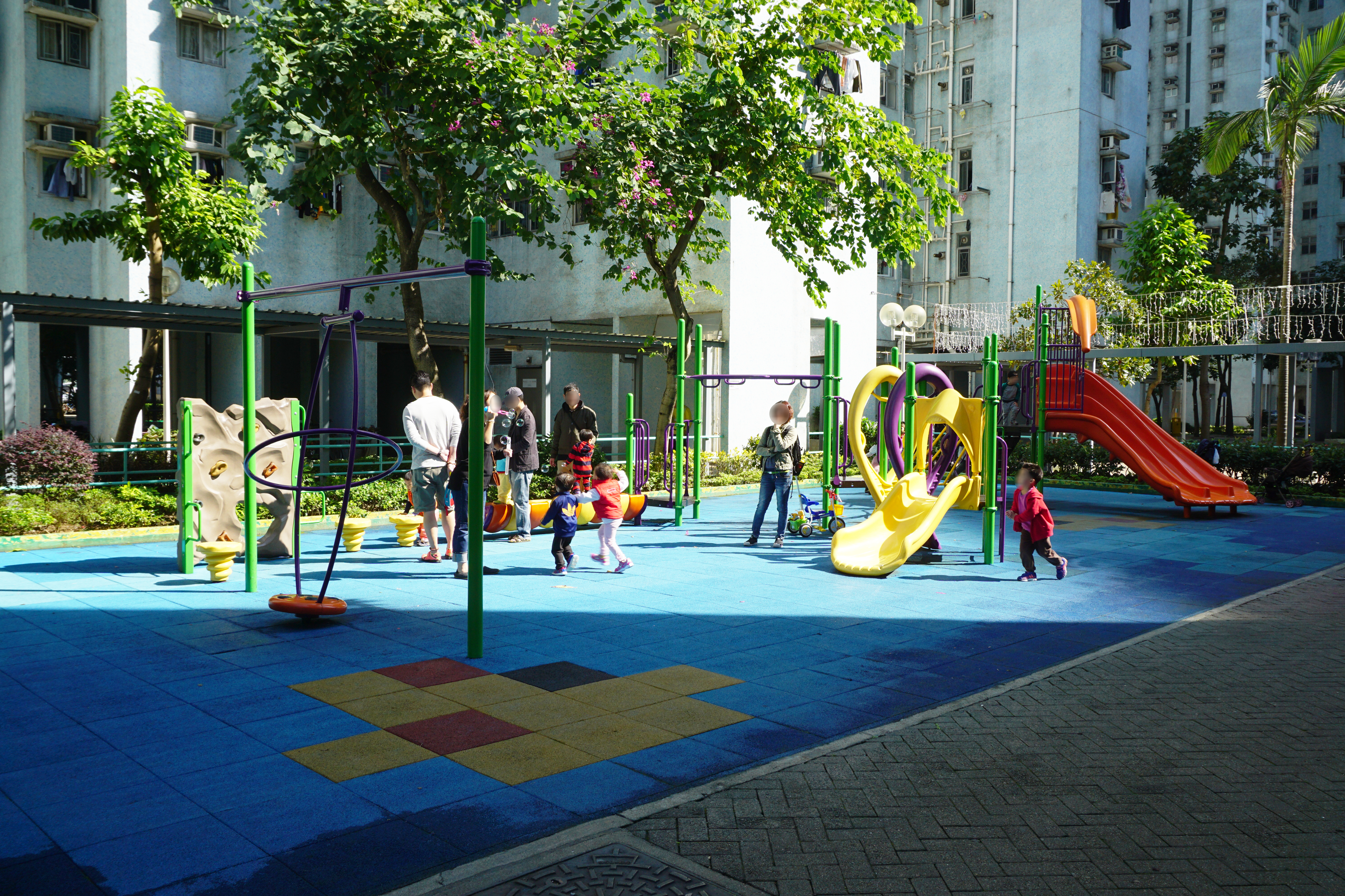 Yuet Wu Villa in Tuen Mun, Hong Kong.